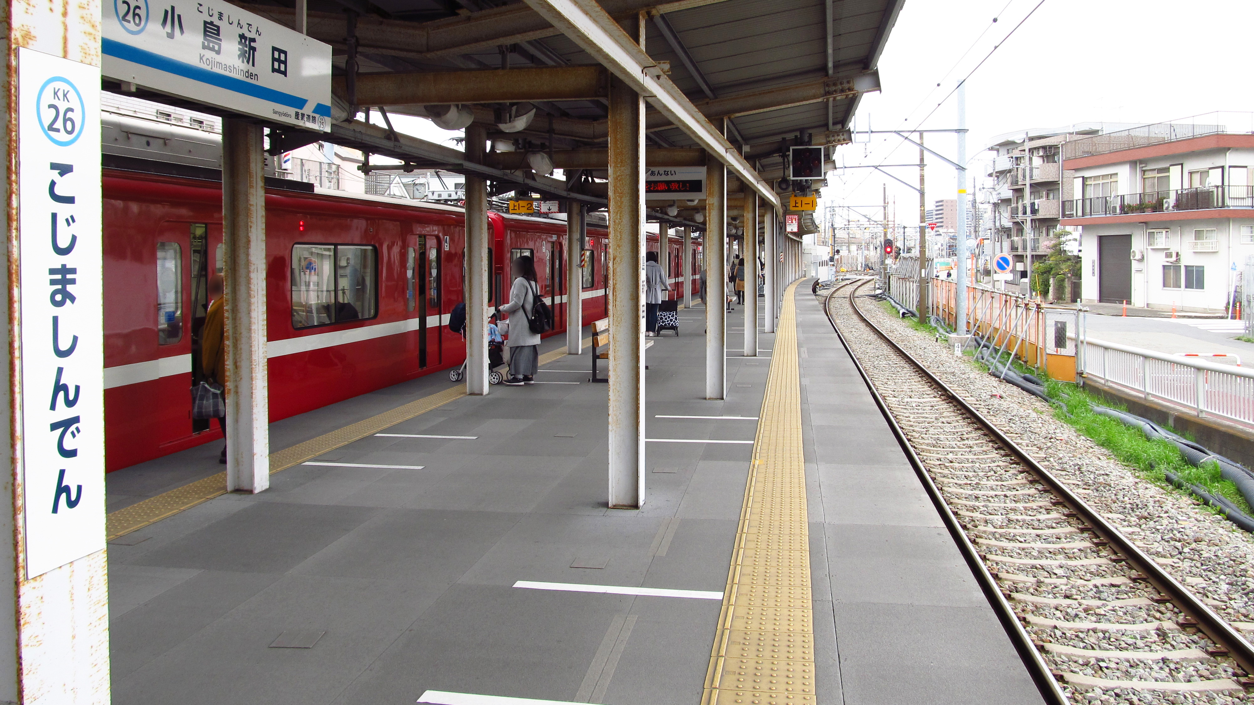 The platform at Kojimashinden Station on the Keikyū Daishi Line in Kawasaki ward, Kawasaki city, Japan